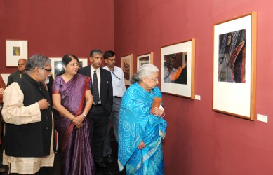 Art historian R. Siva Kumar accompanies the Culture Minister of India